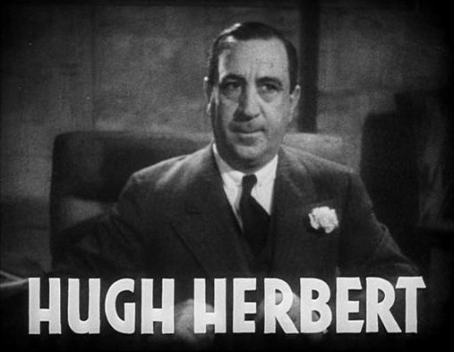 Frame from public domain trailer for Warner Bros. 1933 film Footlight Parade showing Hugh Herbert and his name in type